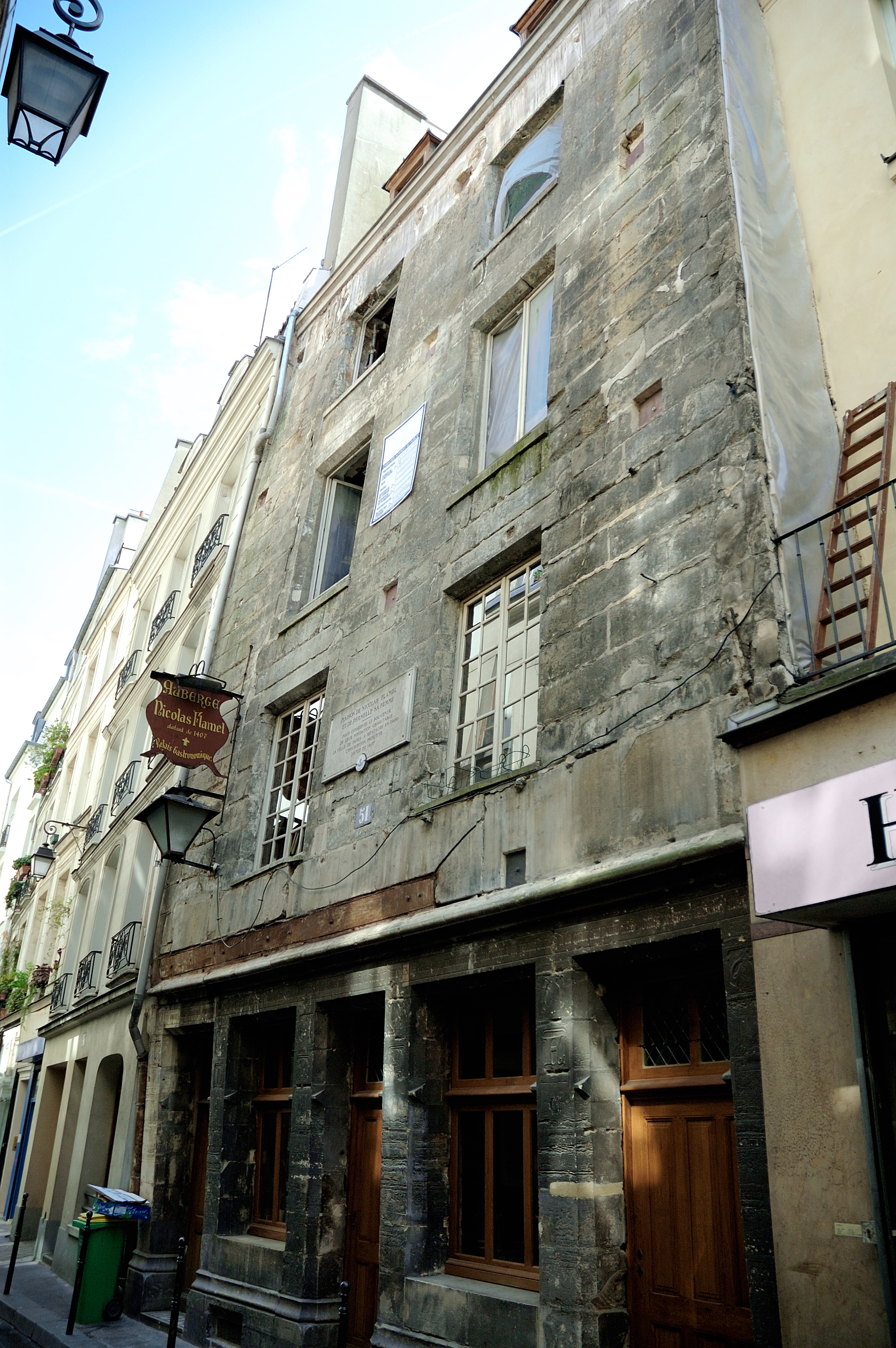 House of Nicholas Flamel, one of the oldest houses in Paris, France